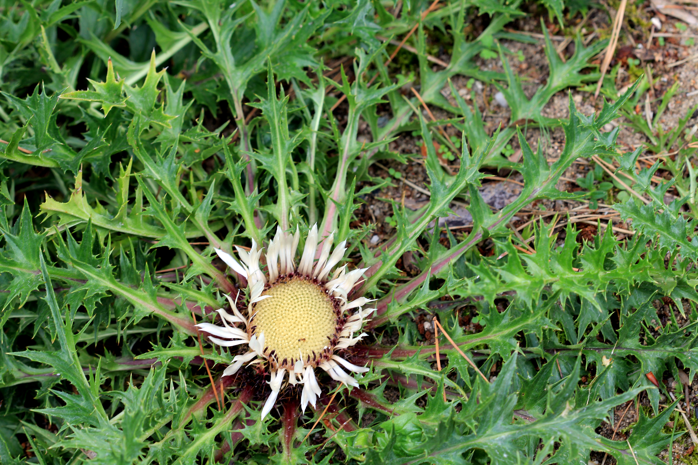 Flowering plant Carlina acaulis from the Botanical Gardens of Charles University, Prague, Czech Republic